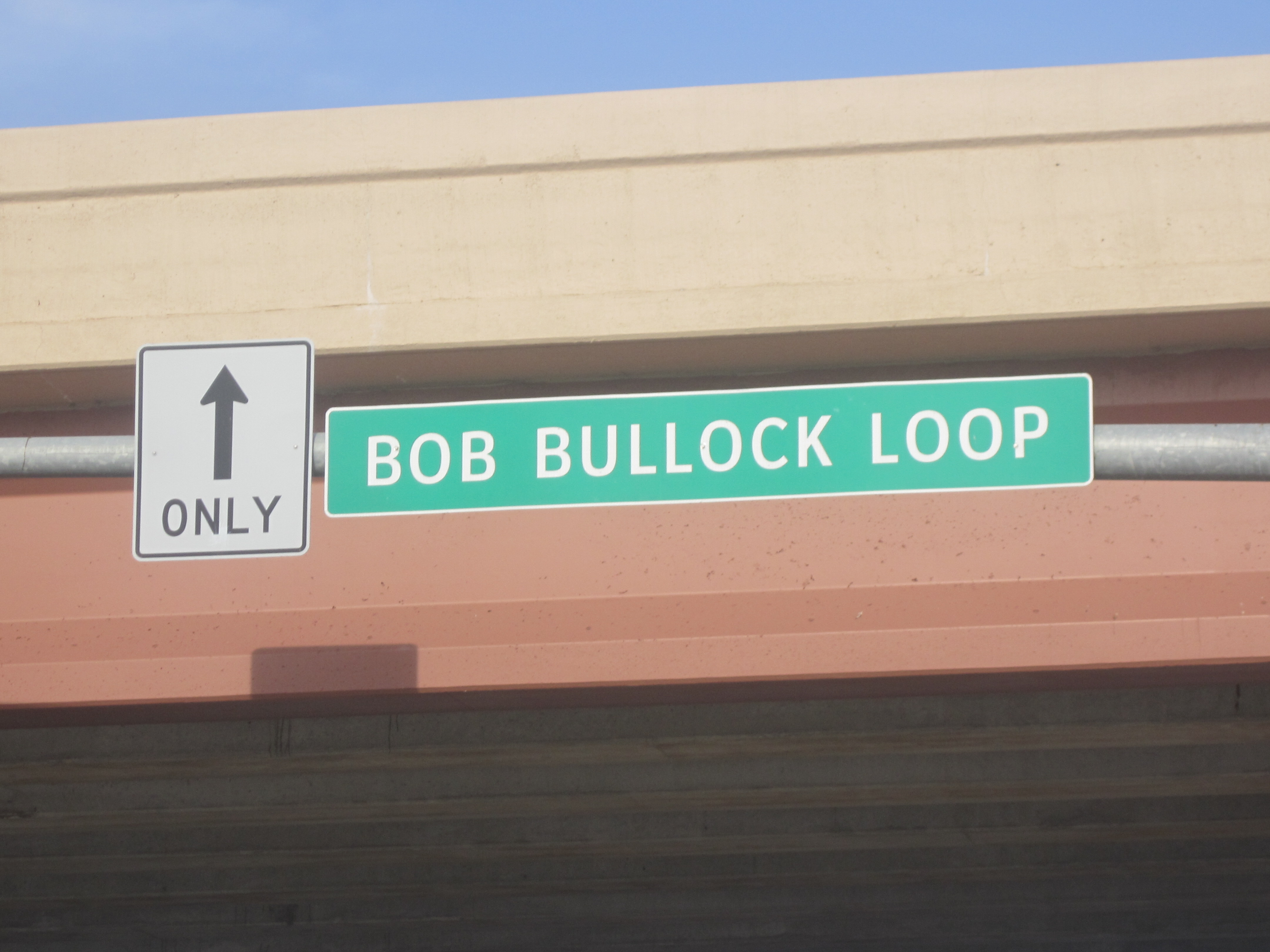 I took photo with Canon camera in Laredo, TX.